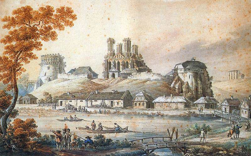 Castle of Ostroh, Ostroh, Ukraine.